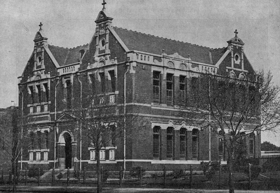 Showing the new building in Victoria Street.